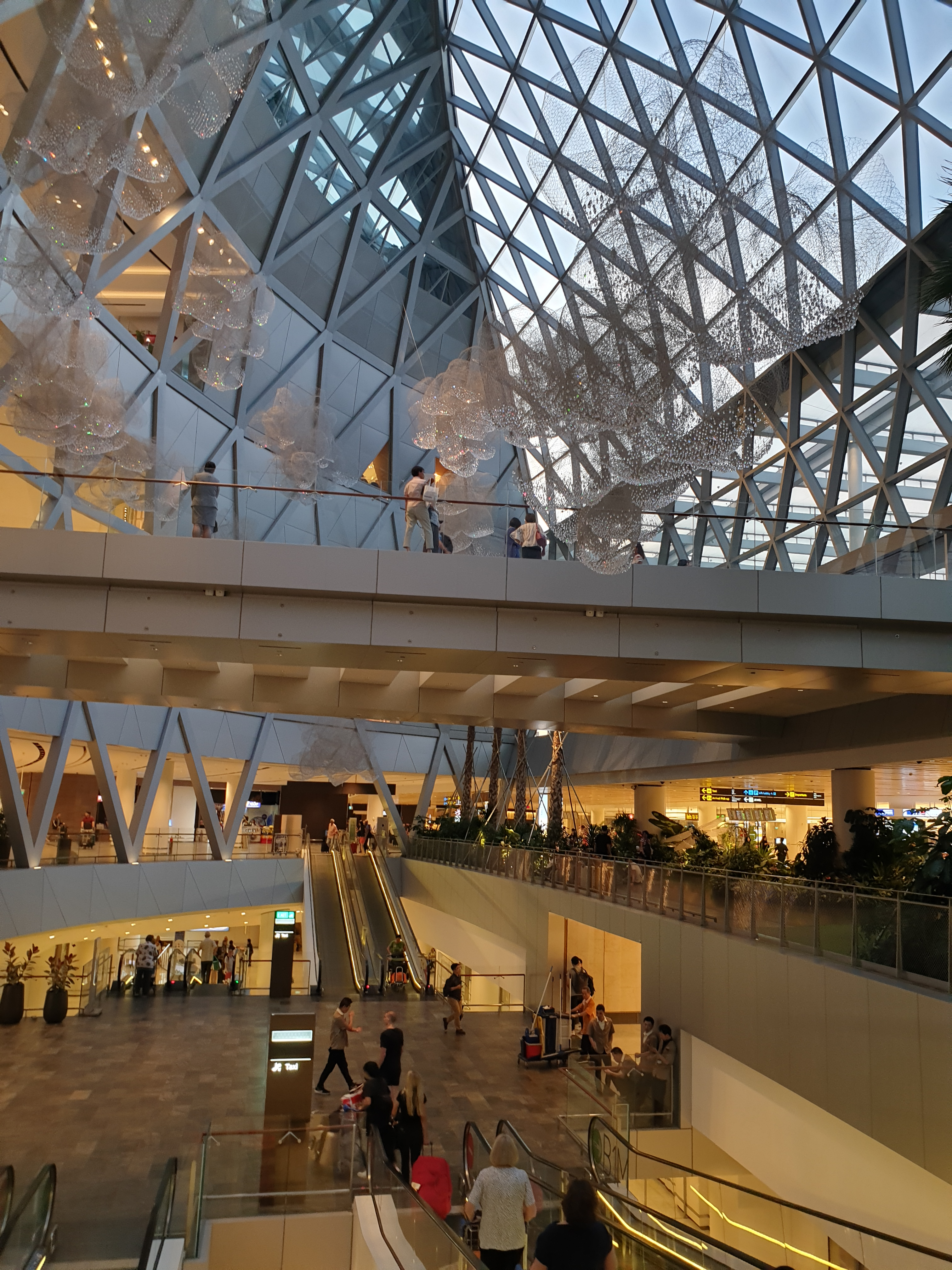 neighborhood